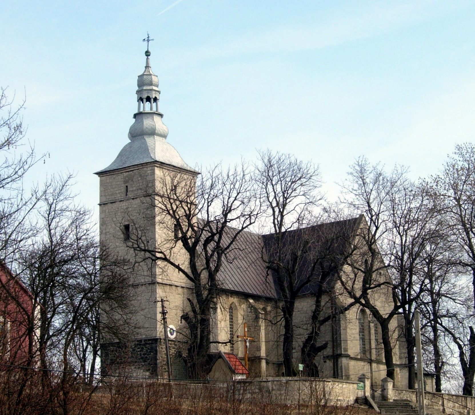 Kościół Wniebowzięcia NMP w Strożyskach